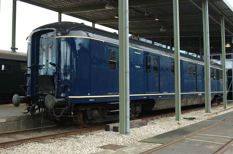 Plan C travelling post office P7920 in the Dutch National Railwaymuseum.